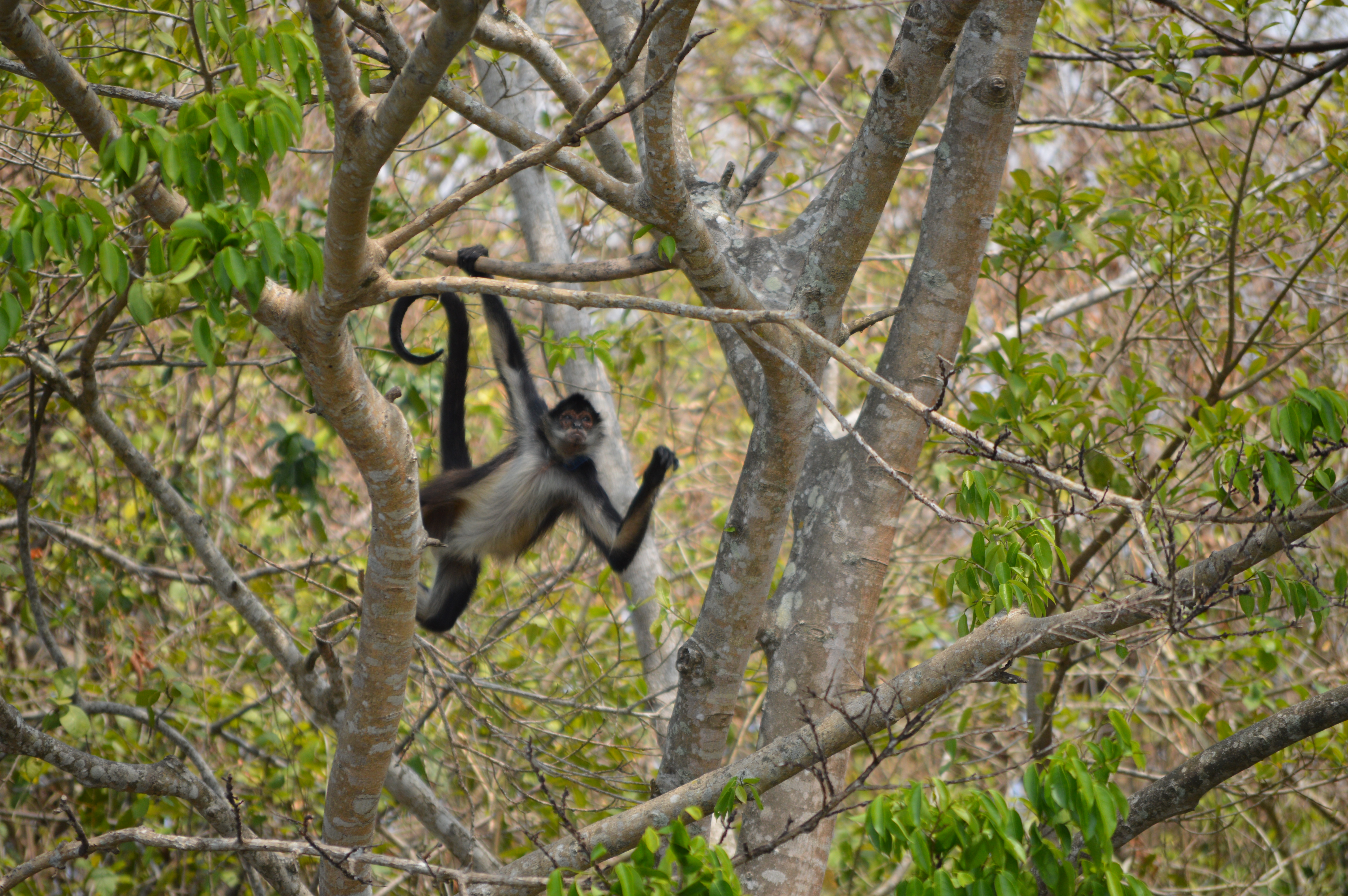 Spider monkey in tree on island in Lake Catemaco, Veracruz, Mexico